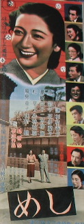 Japanese movie poster for 1951 Japanese film Repast (Meshi)